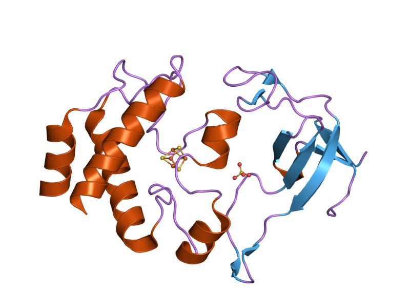 Cartoon representation of the molecular structure of protein registered with 1dj7 code.